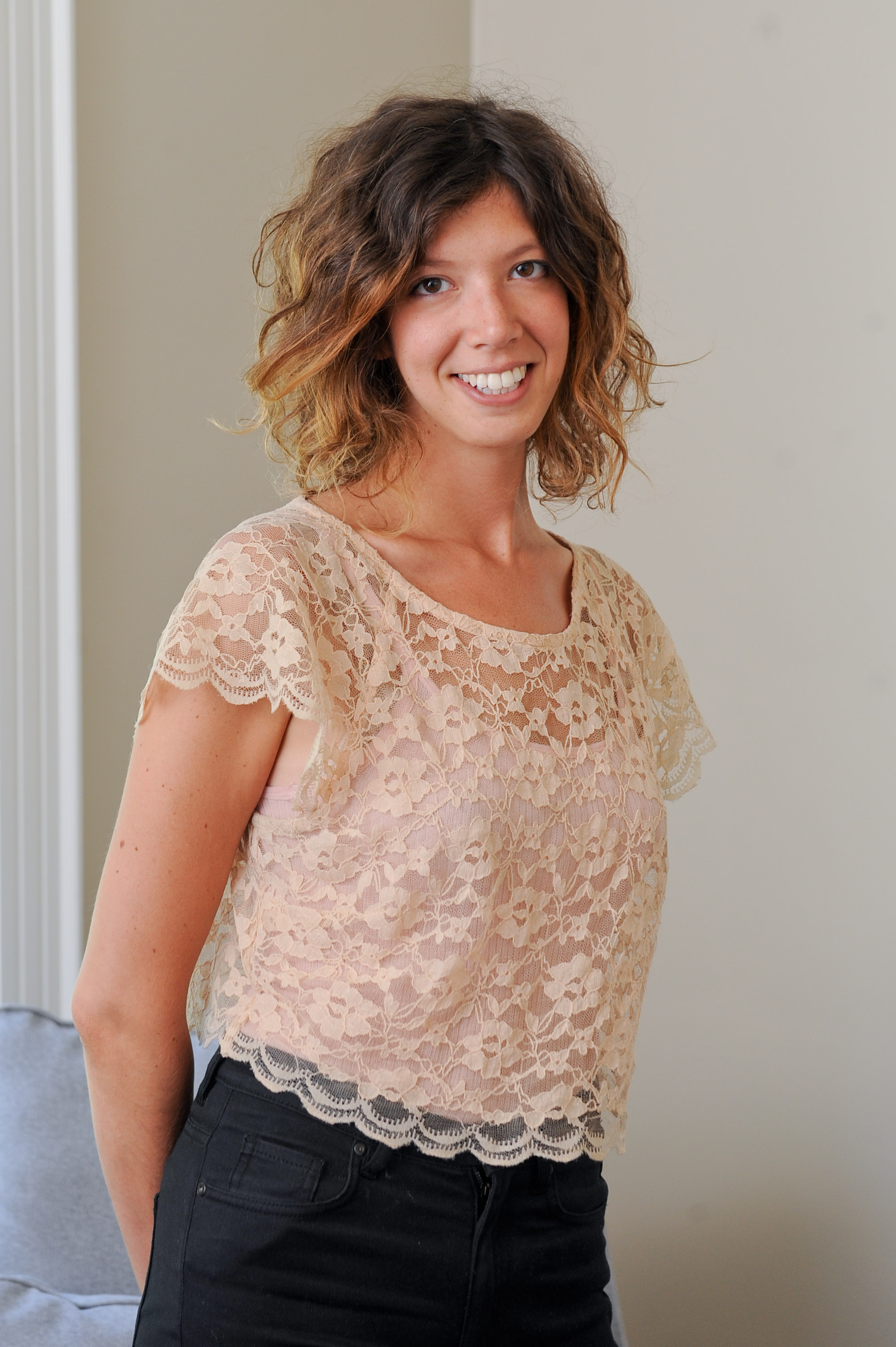 Elisabeth Holm, producer of Obvious Child, visits CFC for Master Class with residents of the 2014 Cineplex Entertainment Film Program. Photos by: Ernesto Di Stefano